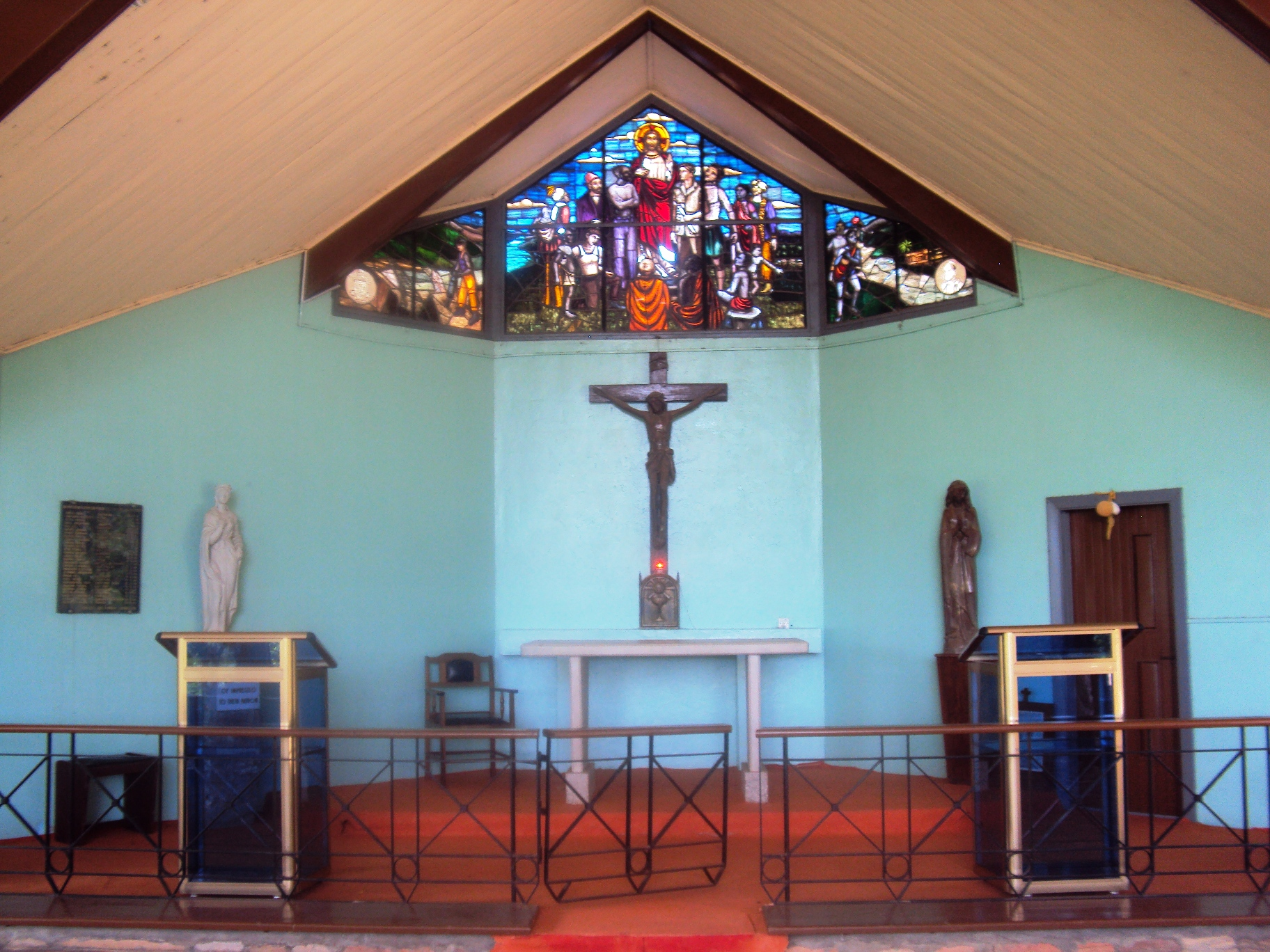 Saint Barbara Catholic Church also known as Santa Barbara Catholic Church is a small church situated at one of the highest points in Akosombo, overlooking the dam. It was constructed in September 1962 by Impregilo SPA within 21 days. It was built as a place of worship by the staff of Impregilo to seek God’s guidance and protection for the building of the Akosombo Dam. Subsequently a memorial plaque was placed in the church to honor the 28 staffs of Impregilo SPA who died building the dam. The chapel was dedicated by Cardinal Giovanni Montini (Pope Paul VI) when he visited Ghana in 1962